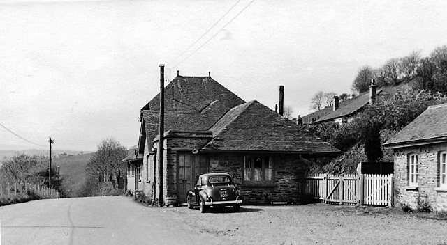 Lynton & Lynmouth Station (converted). View SW, towards Barnstaple. The ex-Southern Railway Lynton & Barnstaple narrow-gauge line had been closed completely on 29/9/35 and when photographed in 1960 this station (some way short of Lynton) was a private house. The Lynton & Barnstaple Railway Association/Company acquired Woody Bay Station in 2000 and by 2006 had restored a mile of the line from there to Killington Lane, with plans to return to Lynton eventually.